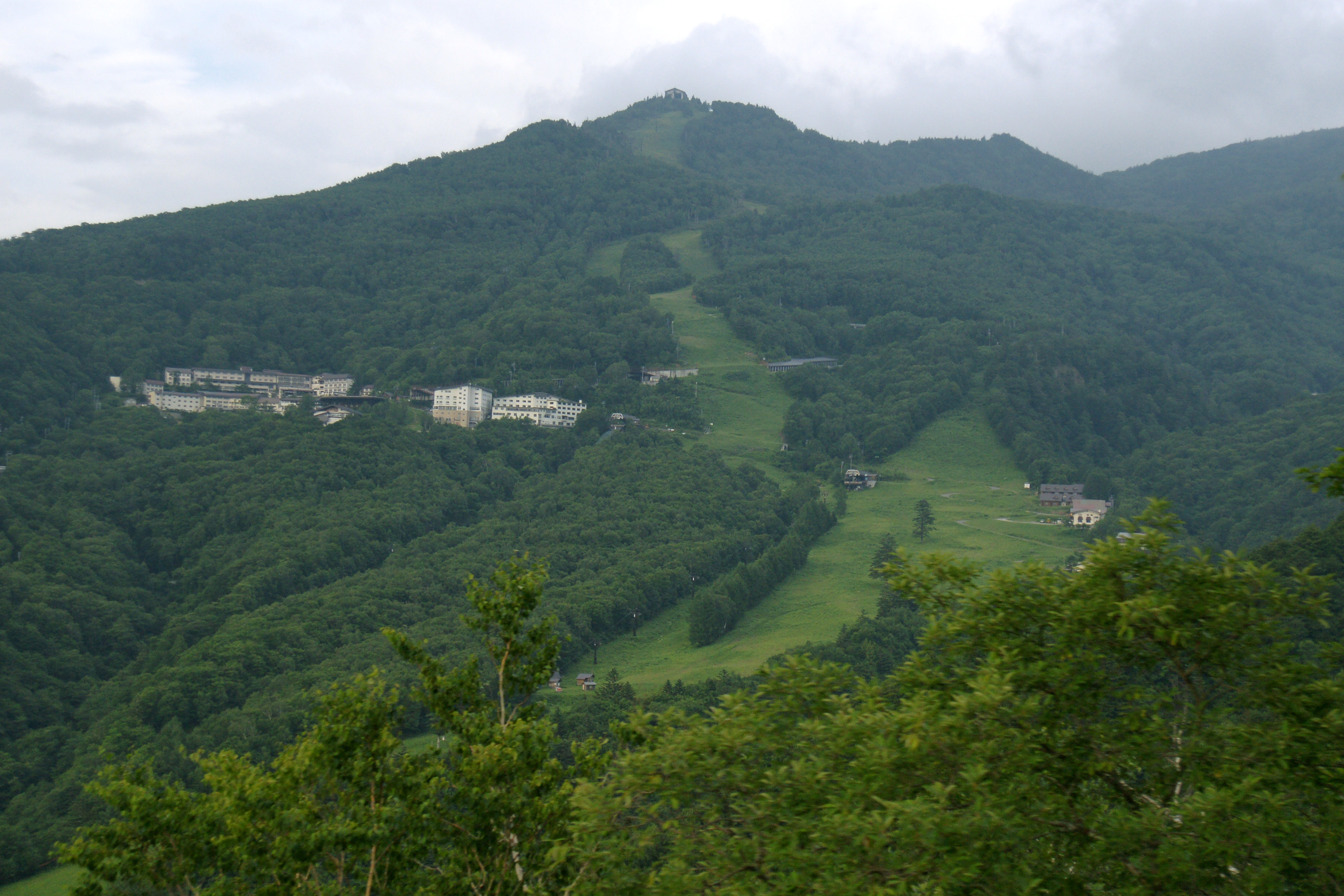 Mt. Higashidate and Hoppo Onsen ,Yamanouchi, Nagano prefecture, Japan